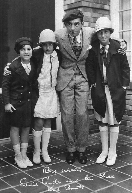 Postcard photo of Eddie Cantor and three of his five daughters. The card was a promotion for Millerkins children's shoes, which the girls are wearing in the photo, and for Cantor's first motion picture, Kid Boots (1926).